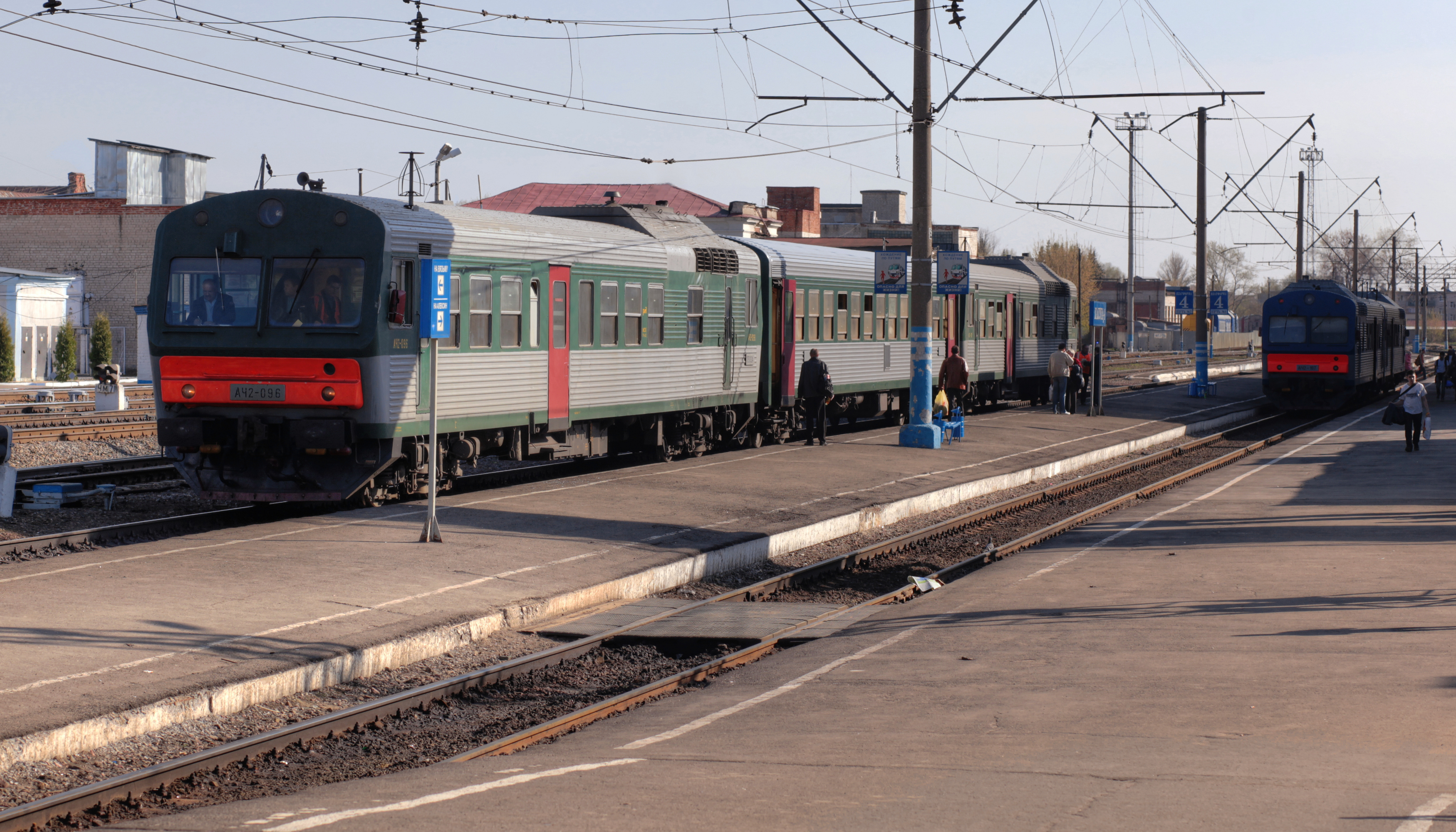 ACh2 local diesel train, Kaluga-1 station